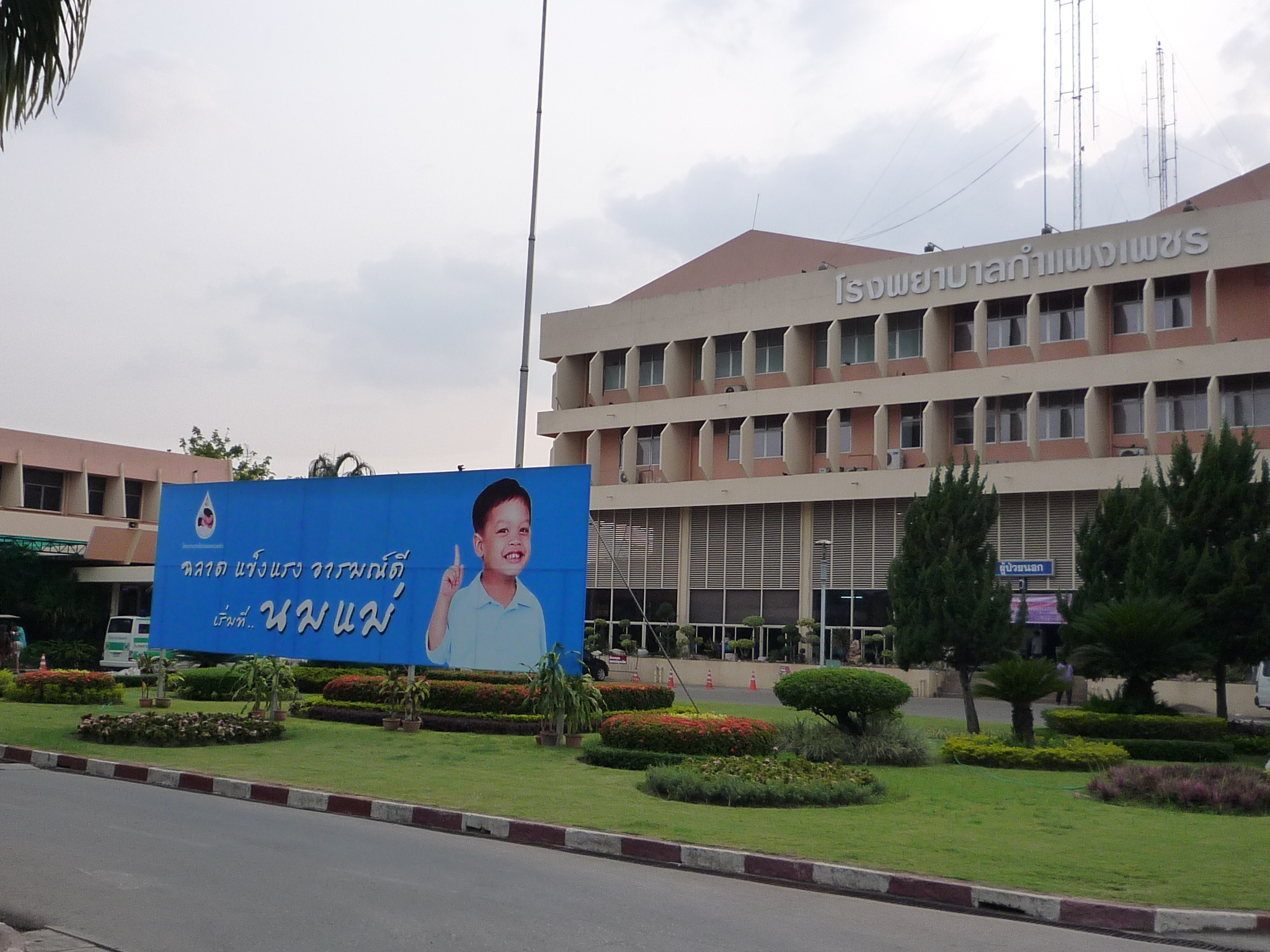 Kamphaeng Phet Hospital